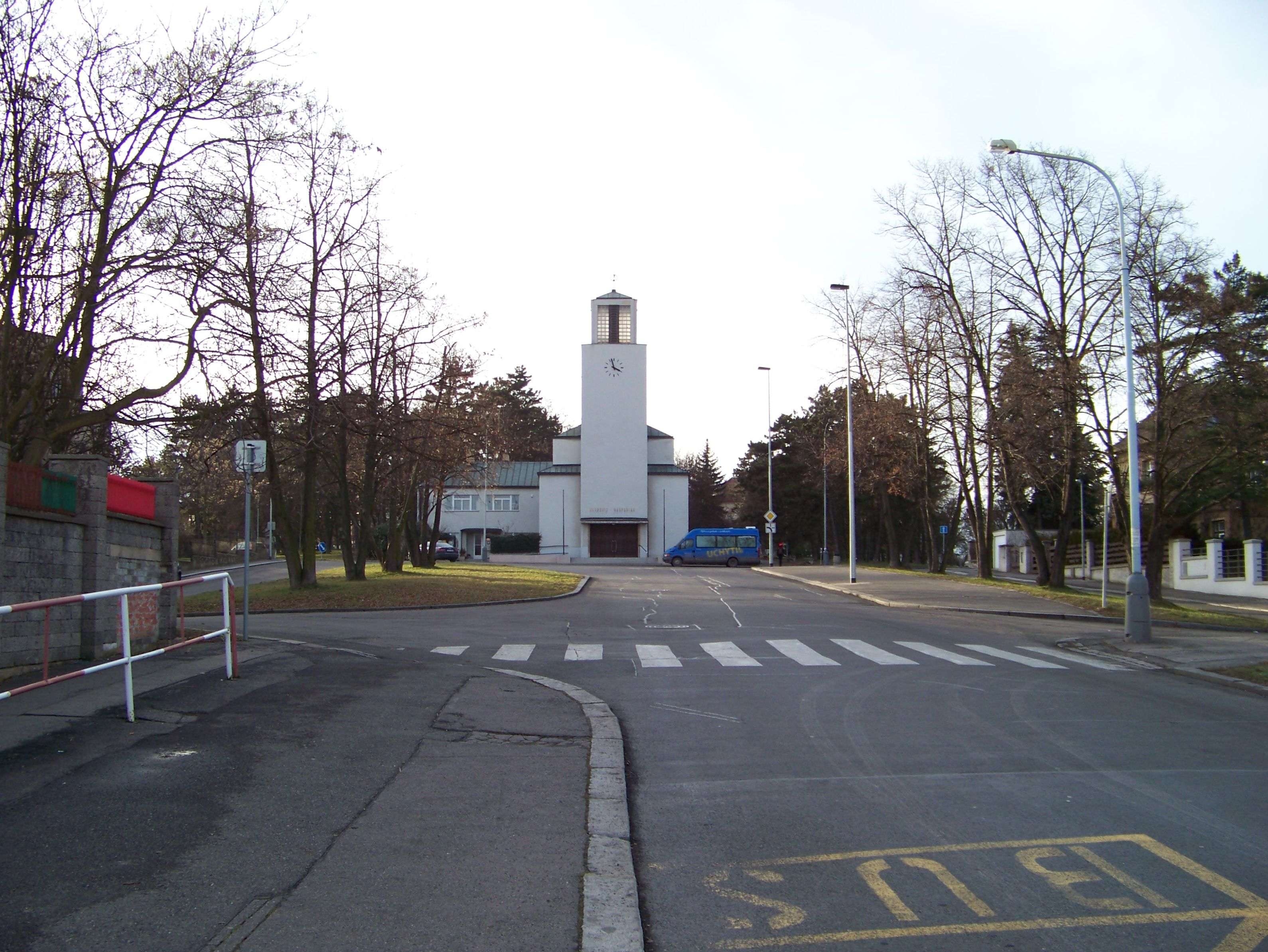 Prague-Střešovice, Czech Republic. Náměstí Před bateriemi, evangelical church.